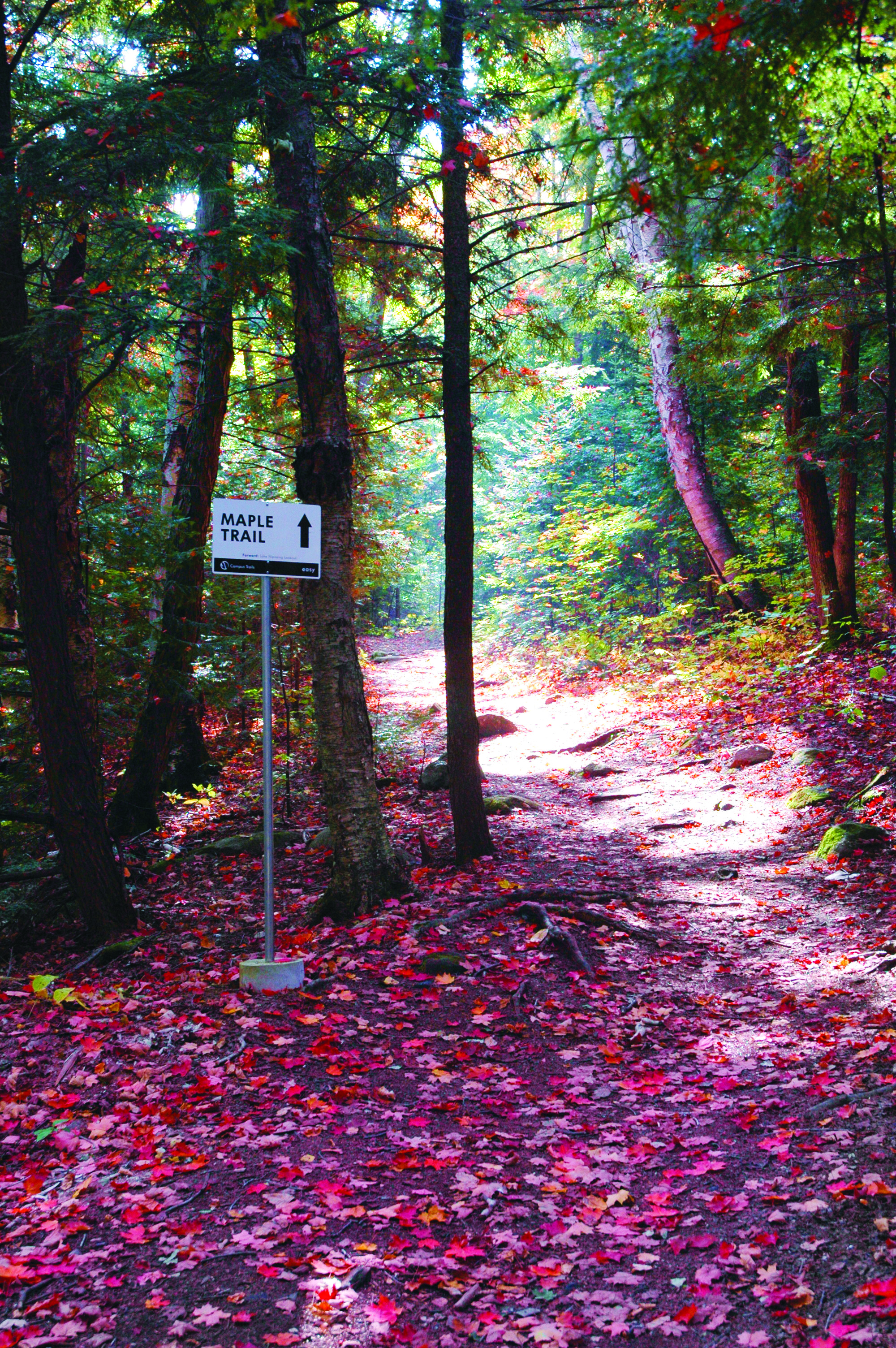 A picture of one of the trails behind Nipissing University during the fall